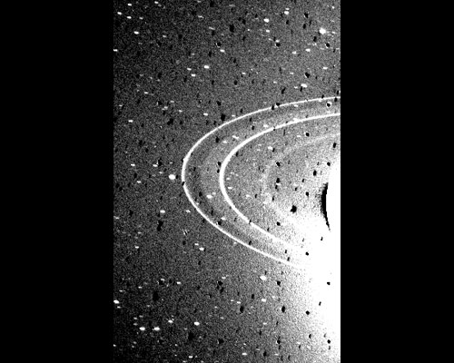 This 591-second exposure of the rings of Neptune were taken with the clear filter by the Voyager 2 wide-angle camera. The two main rings are clearly visible and appear complete over the region imaged. Also visible in this image is the inner faint ring and the faint band which extends smoothly from the ring roughly halfway between the two bright rings. Both of these newly discovered rings are broad and much fainter than the two narrow rings. The bright glare is due to overexposure of the crescent on Neptune. Numerous bright stars are evident in the background. Both bright rings have material throughout their entire orbit, and are therefore continuous.